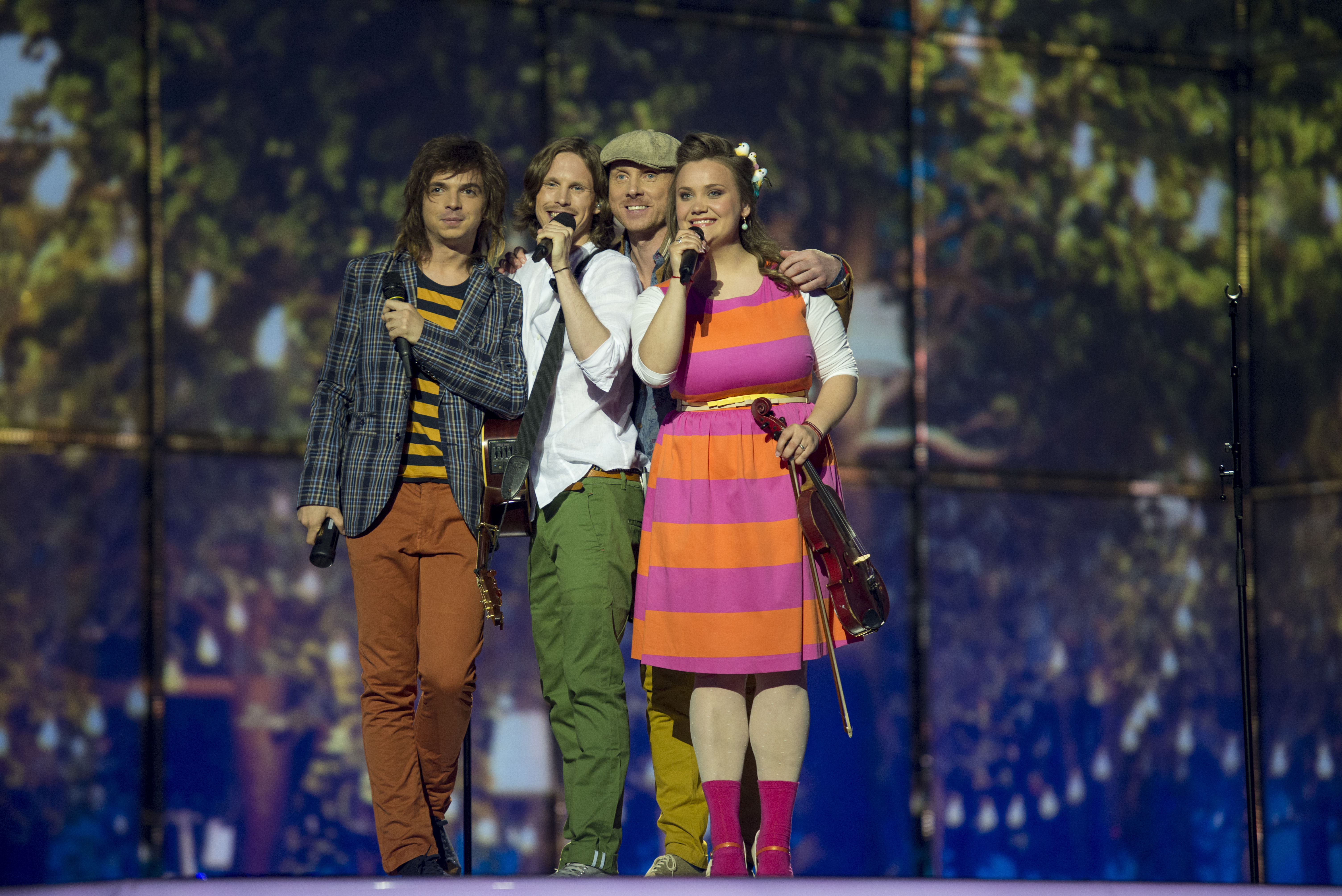 Aarzemnieki representing Latvia with the song "Cake to Bake" during the first dress rehearsal of the first semi final of the Eurovision Song Contest 2014 Copenhagen. (Help translate this text)